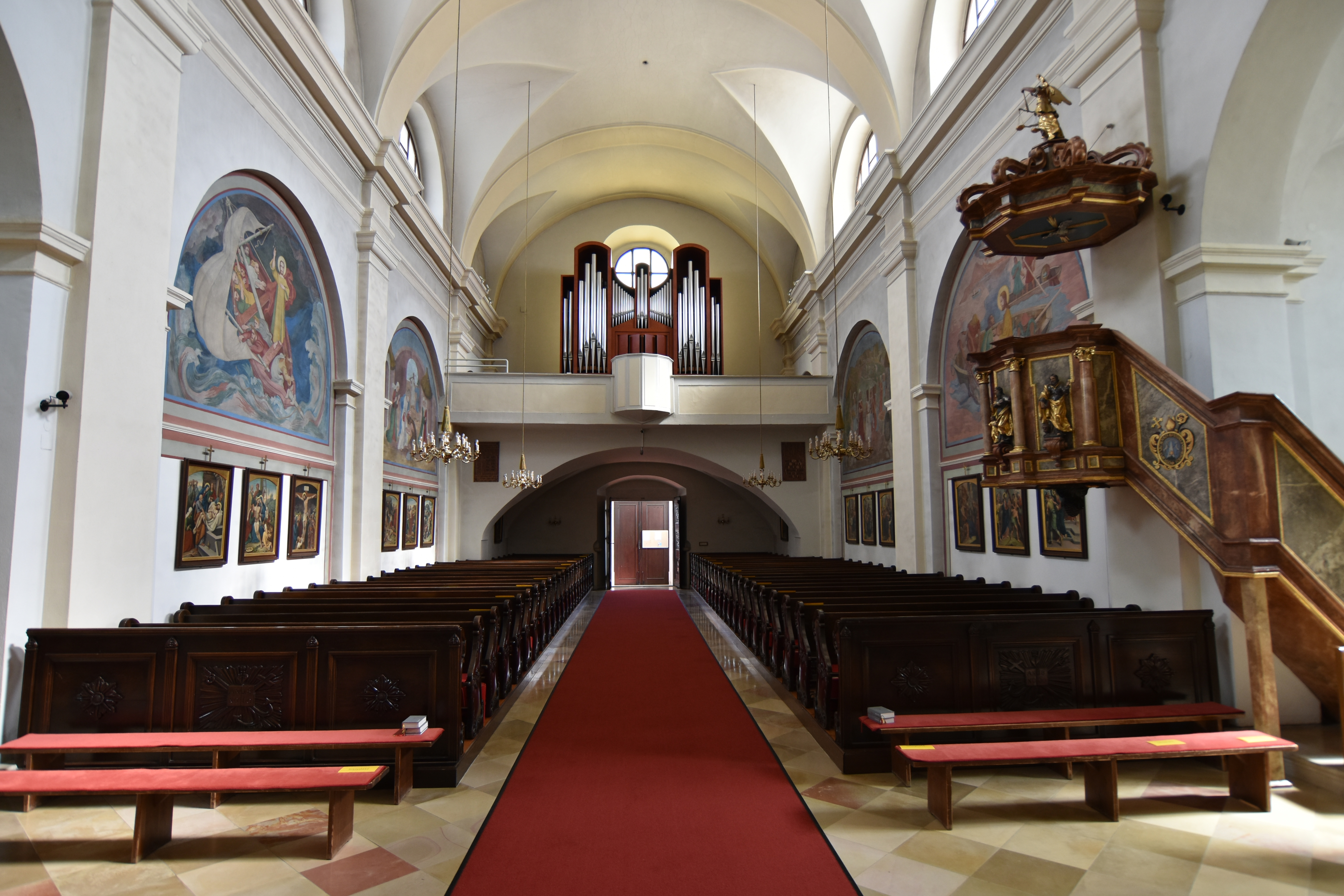 Church Katharinenkirche Rechnitz Interior